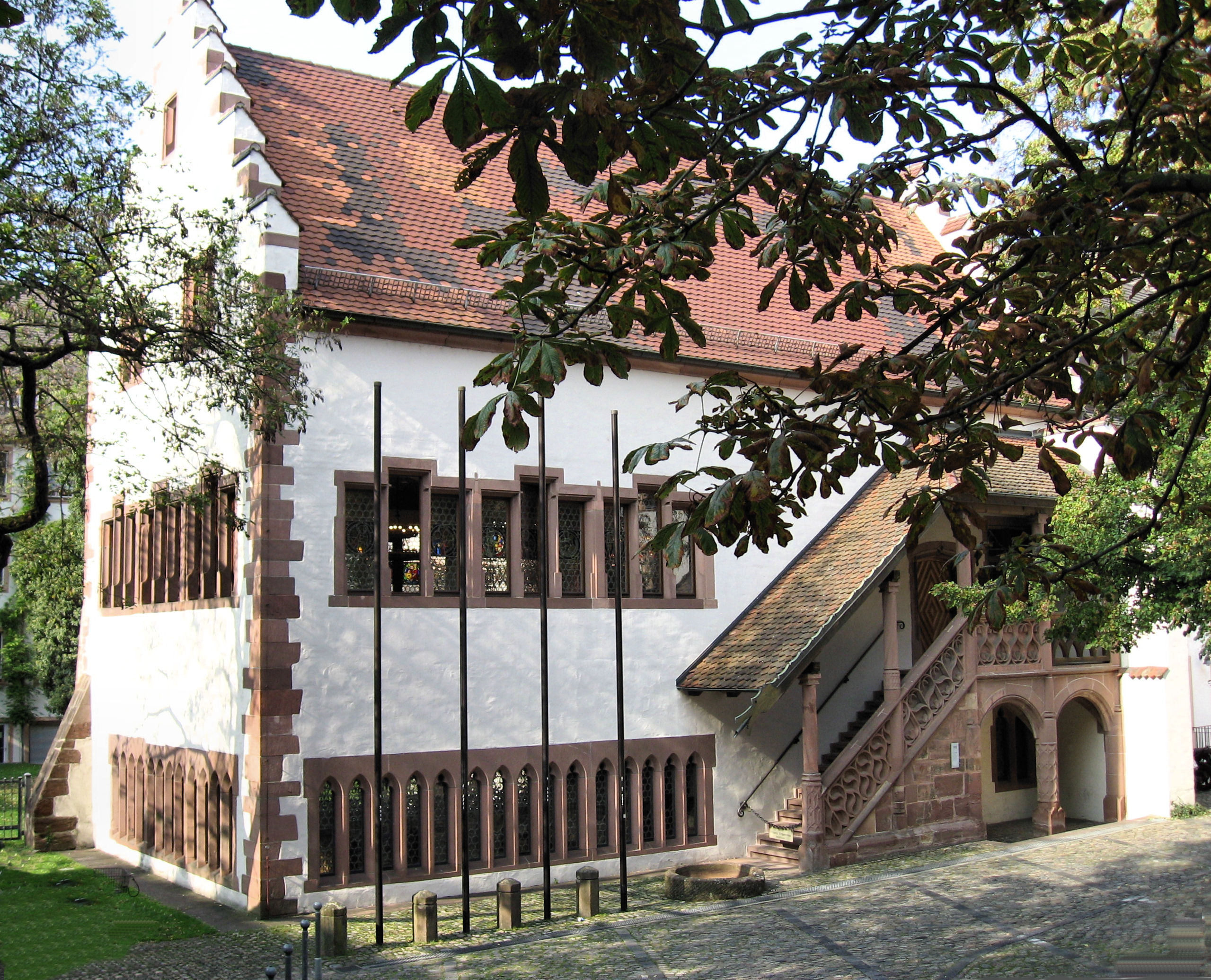 Description: The Gerichtslaube where in 1498 the Imperial diet was held Source: self-made Date: 18.01.2008 Author: Manfredjohannes